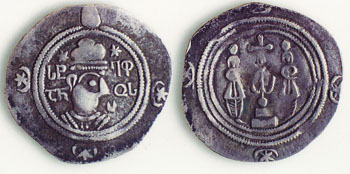 Silver coin with Georgian inscriptions, minted by Stephanoz I of Georgia , 6th century.